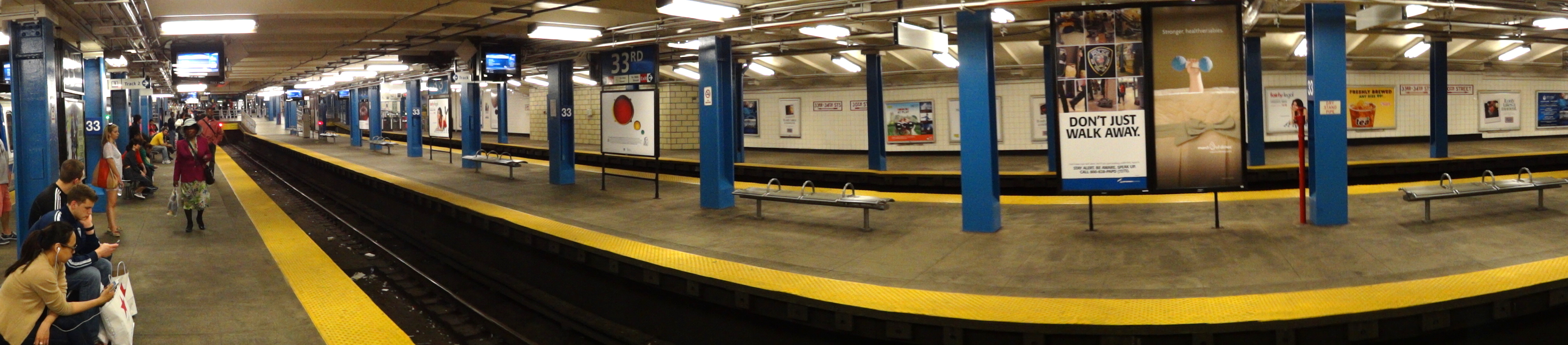 Panorama of 33rd Street Subway Station - Midtown Manhattan - New York City - New York - USA